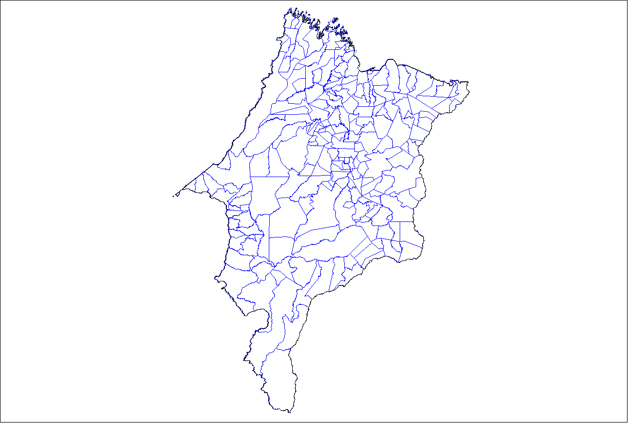 Map of the municipalities of the state of Maranhao, Brazil. Created by Rarelibra 21:41, 24 August 2006 (UTC) for public domain use. Created using MapInfo Professional v8.5 and various mapping resources.